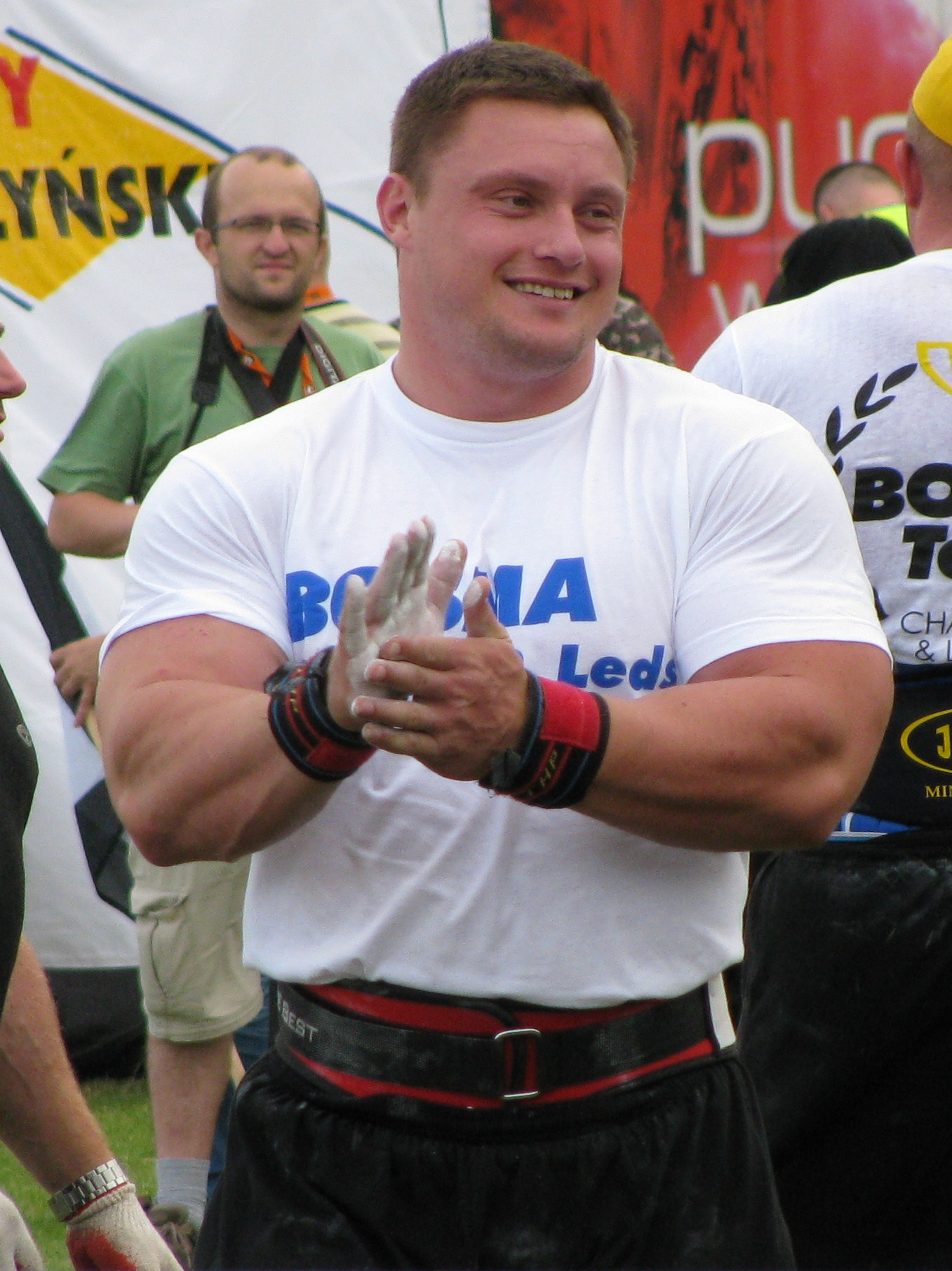 Krzysztof Radzikowski - a strength athlete from Poland